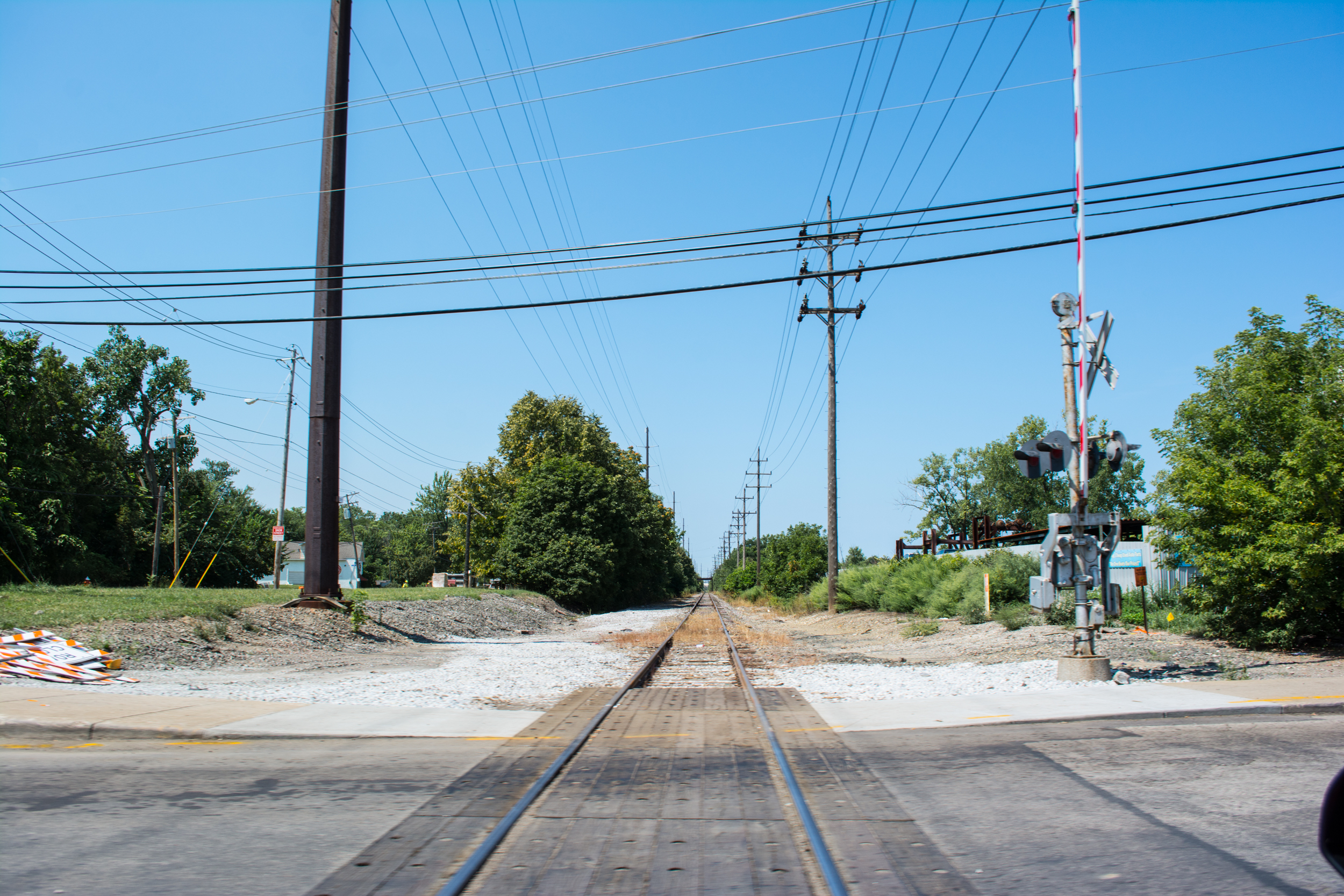 Looking northwest at the Cleveland Commerical Railroad tracks at Harvard Avenue in the Union-Miles Park neighborhood in Cleveland, Ohio, in the United States. This route was established in 1853 by the Cleveland and Mahoning Valley Railroad. The C&MV was purchased by the Atlantic & Great Western Railway in 1863, which in turn was purchased by the New York, Pennsylvania & Ohio Railroad in 1880. This railroad changed its name to the Nypano Railroad, and in 1896 it was purchased by the Erie Railroad. The Erie became the Erie Lackawanna Railroad in 1960, and became part of Conrail in 1976. When Conrail broke up in 1999, the tracks were purchased by the Norfolk Southern. In 2009, the NS leased the line to the Cleveland Commercial Railroad.